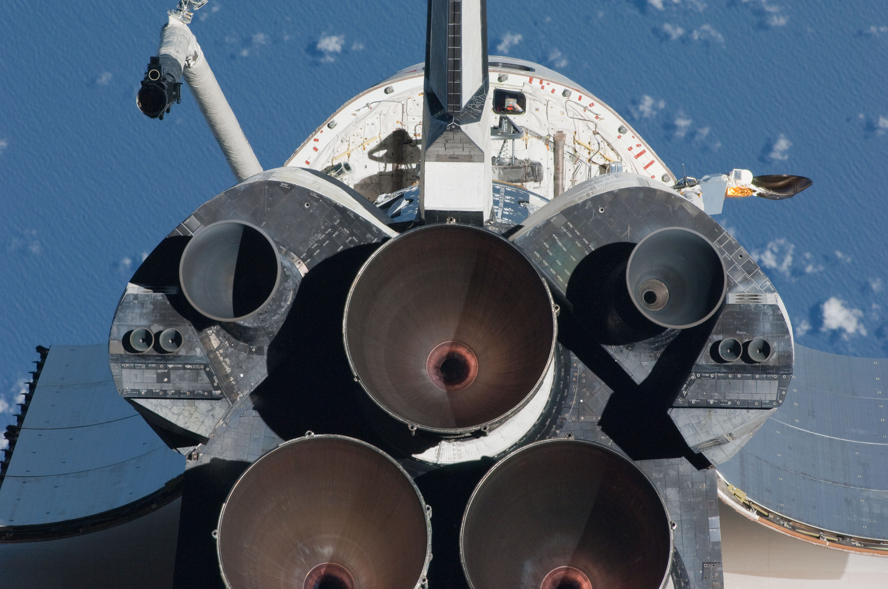 This view of the aft portion of the space shuttle Endeavour, including the three main engines, was provided by an Expedition 22 crew member during a survey of the approaching vehicle prior to docking with the International Space Station. As part of the survey and part of every mission's activities, Endeavour performed a back-flip for the rendezvous pitch maneuver (RPM). The image was photographed with a digital still camera, using a 400mm lens at a distance of about 600 feet (180 meters).